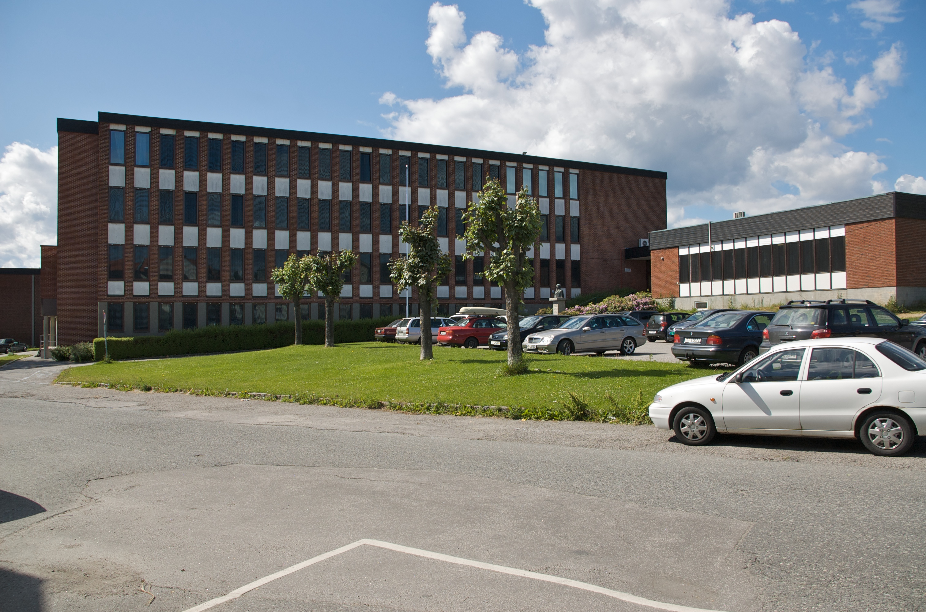 School building in Skien, Norway (Skien videregående skole).